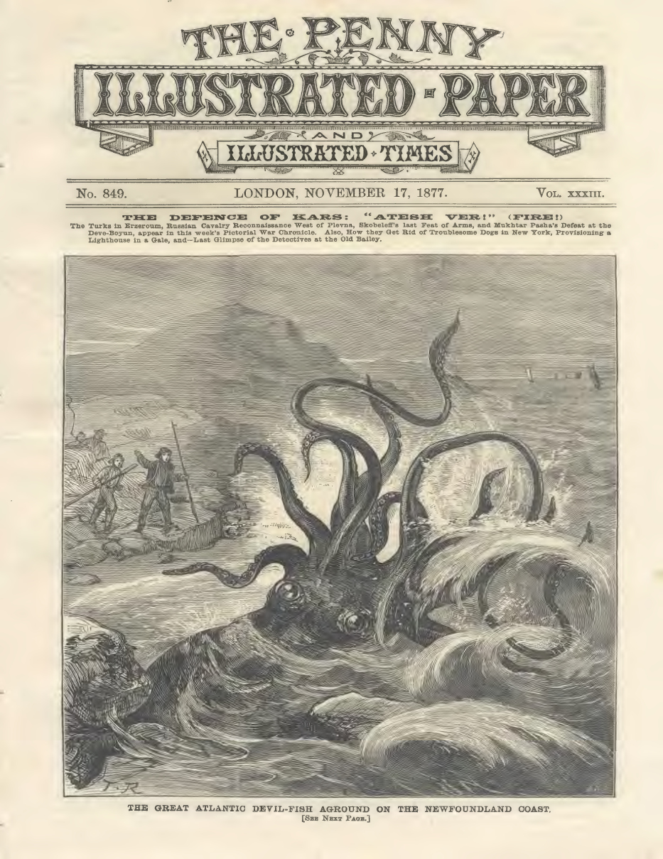 Front cover of issue no. 849 of The Penny Illustrated Paper and Illustrated Times, showing a giant squid found washed ashore, alive, in September 1877 in Catalina, Trinity Bay, Newfoundland